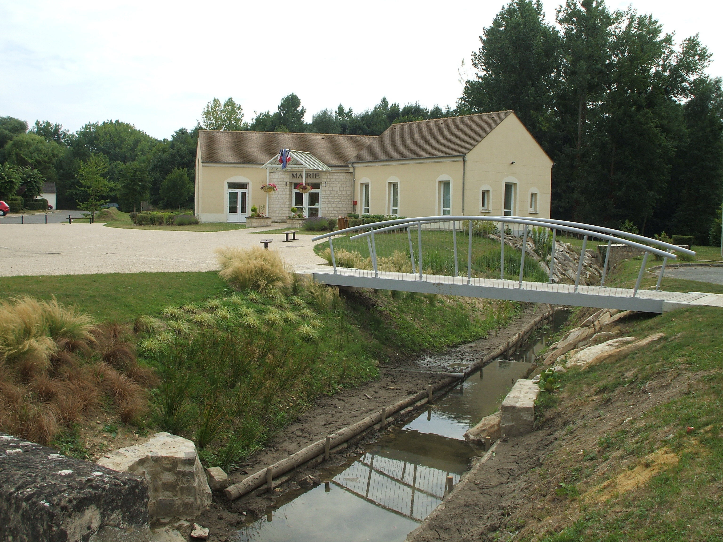 Town halls in montgeroult